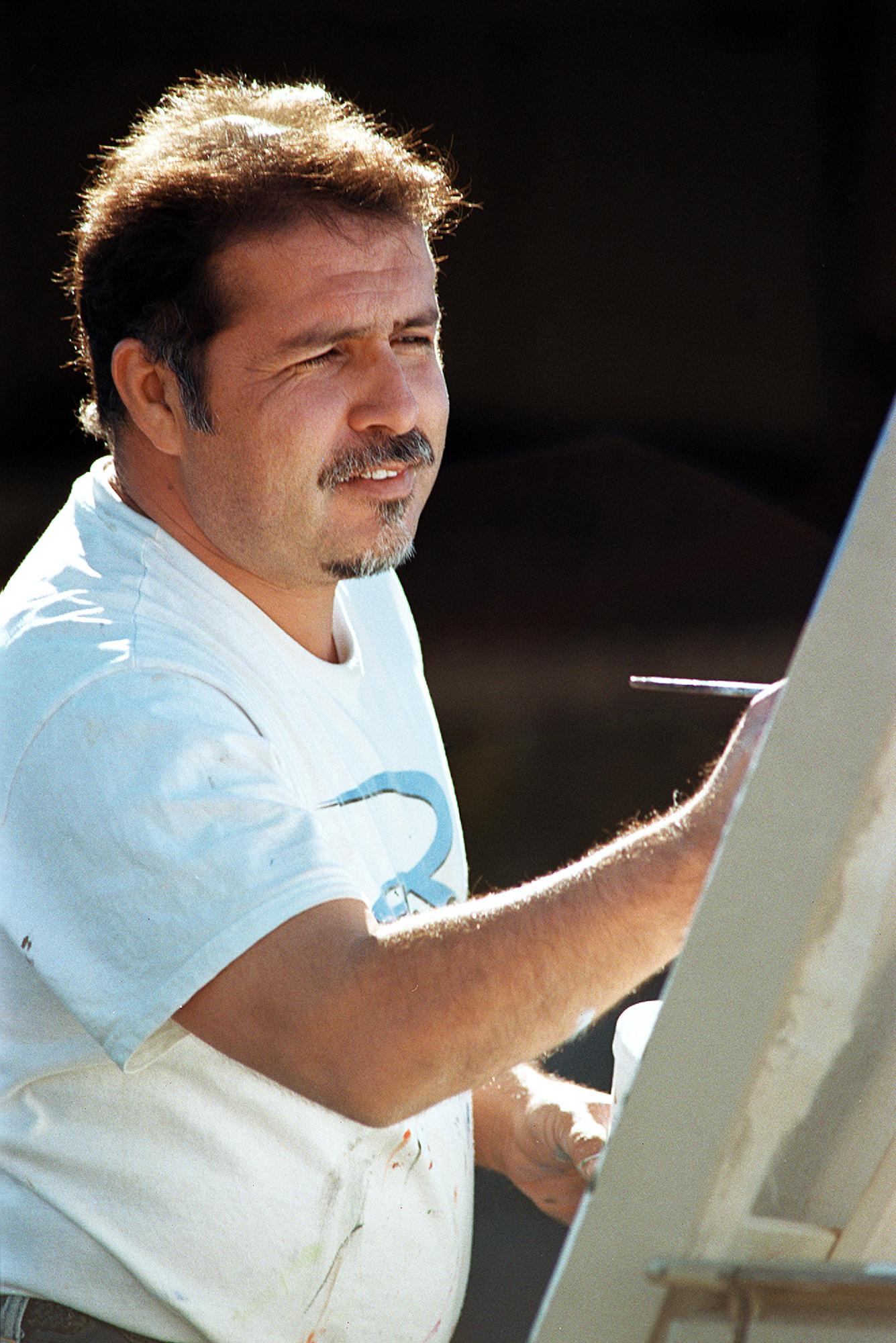 David Tineo working on a painting